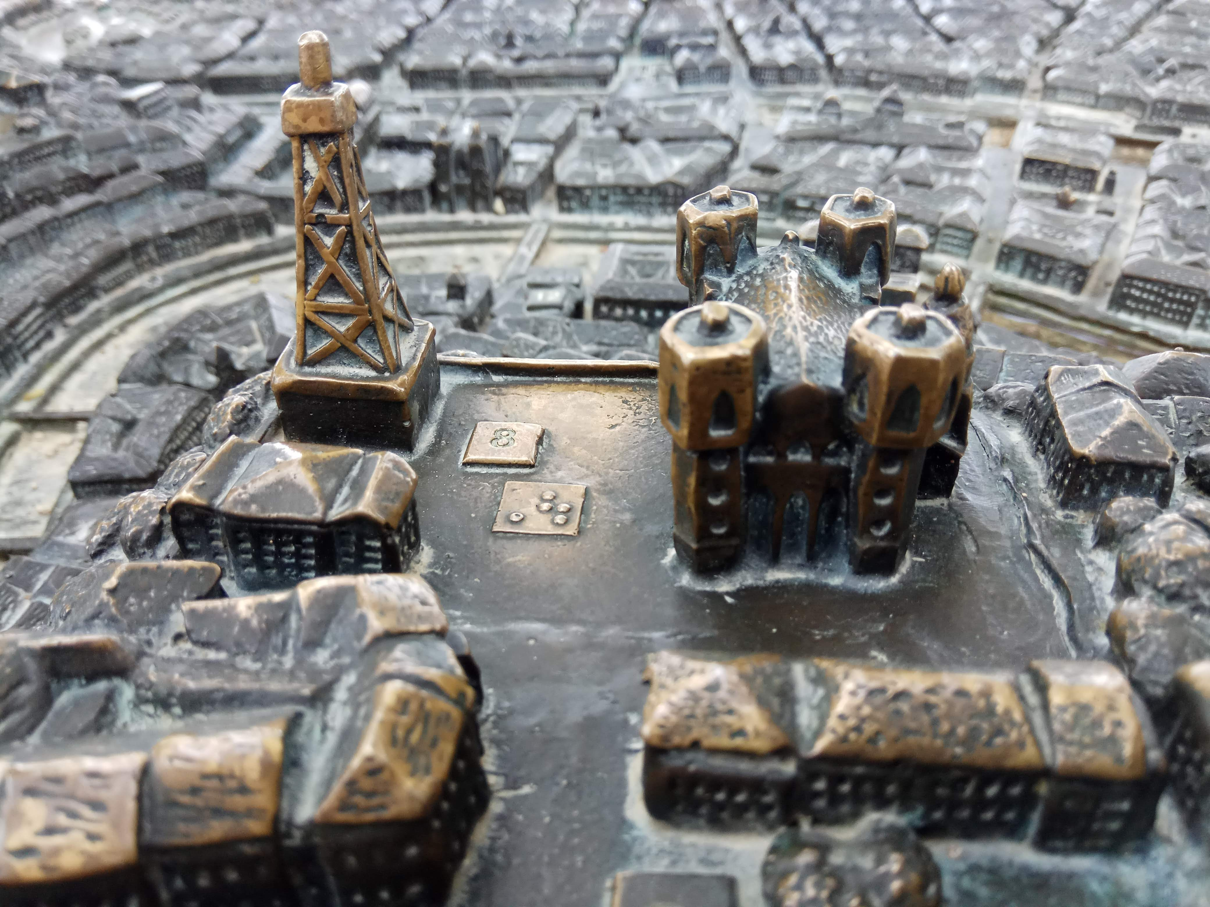 Lyon in France